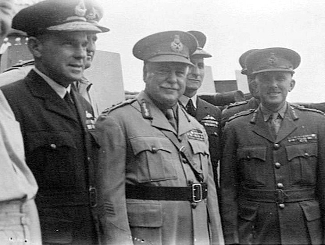 Tokyo Bay, Japan. Left to right: Commodore J. A. Collins, Ran (partly obscured); Air Vice Marshall W. D. Bostock, RAAF; General Sir T. A. Blamey; Air Vice Marshal G. Jones, RAAF and Lieutenant General F. H. Berryman aboard USS Missouri prior to the surrender ceremony.